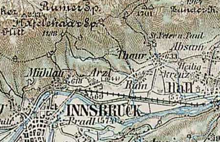 3rd Military Mapping Survey of Austria-Hungary - Innsbruck; detail: Northeast of Innsbruck